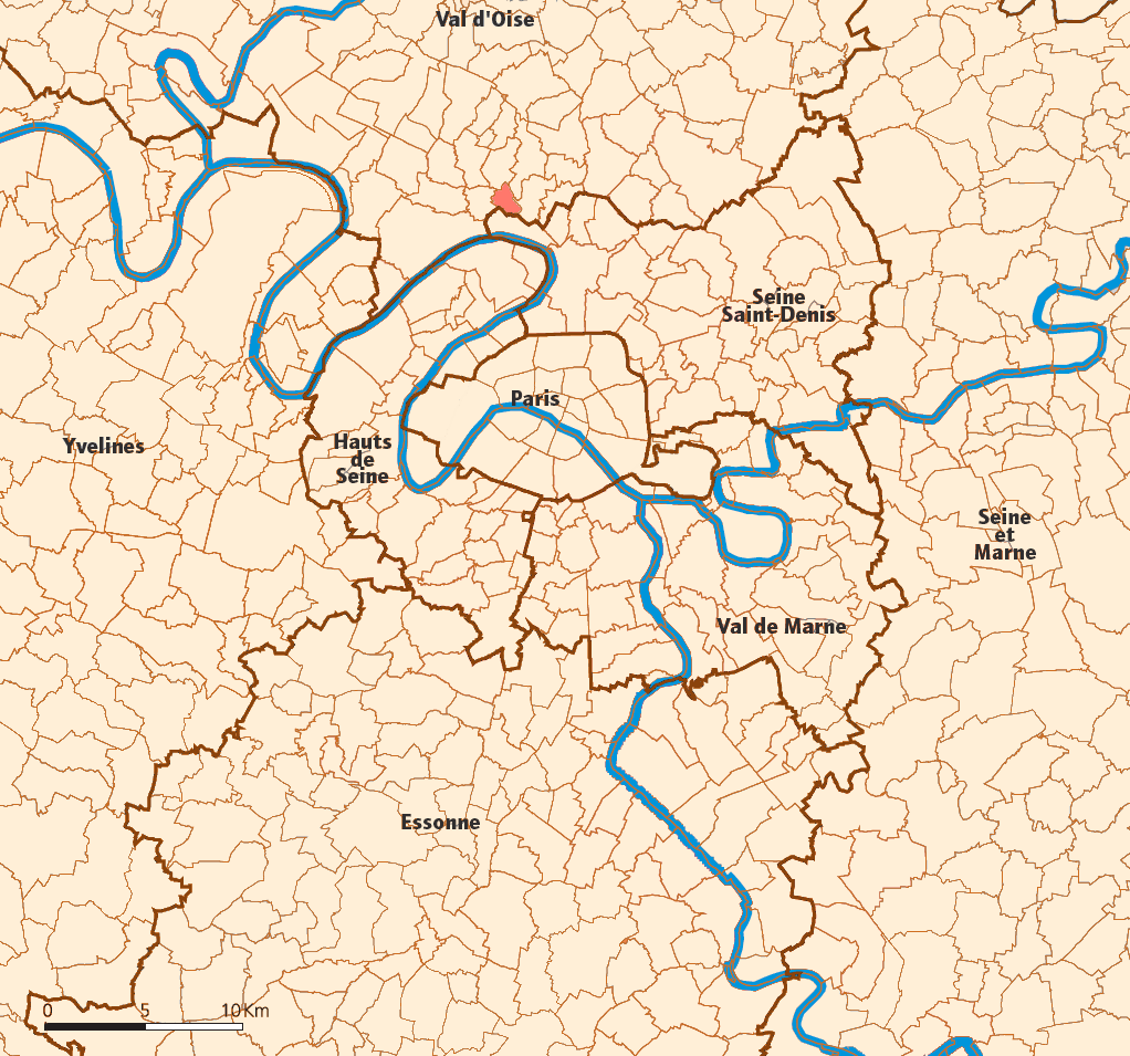 Created map myself.